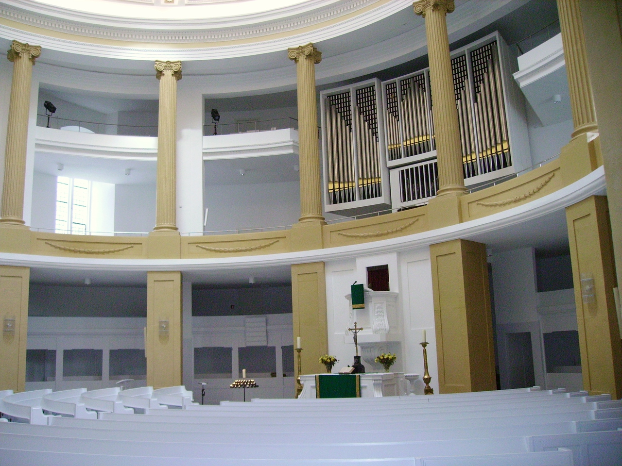 Interior of the Lamberti Church in Oldenburg, Lower Saxony